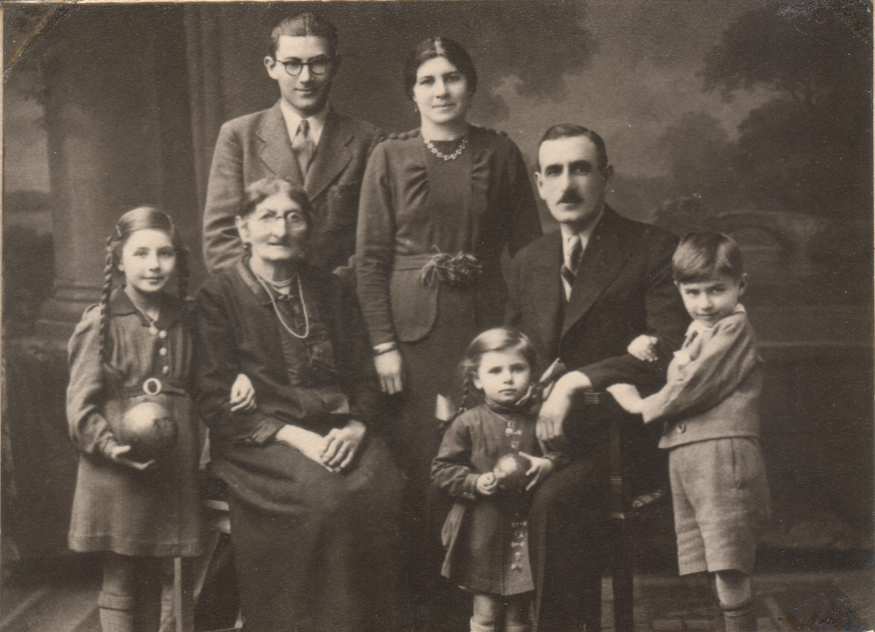 Family Glaser in 1938, Fürth (Germany/Bavaria), description by Willie Glaser: top row, left to right, Willie Glaser with mother Adele second row, l-r sister Bertha, grandmother Esther Glaser, father Ferdinand last row, l-r sister Frieda, brother Leo Picture taken in 1938, sister Lotte was already in England. Birthdays: Father: October 20, 1890 Mother: December 15, 1895 Willie: January 8, 1921 Sister Bertha: May 18, 1930 Brother Leo: May 17 1932 Sister Frieda: December 12, 1935 Grandmother Esther: September 8, 1860 Deported from Fürth to Izbica on March 22, 1942 and perished in Belzec: Mother Adele, Bertha, Leo and Frieda. Deported from Paris to Auschwitz on December 7, 1943 and perished in Auschwitz: father Ferdinand Grandmother Esther died in "Jüdisches Krankenhaus Fürth", date of death April 6, 1942, she died 22 days after the deportation of Adele, Bertha, Frieda and Leo. There is no "Todesurkunde" of her death. The date is according the inscription on her grave stone in the new Jewish cemetery in Fürth Alive (2009.02.17): Willie Glaser, Montreal (Canada).